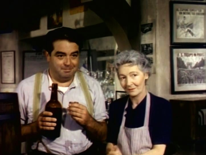 Kurt Kasznar & Celia Lovsky in The Last Time I Saw Paris - cropped screenshot